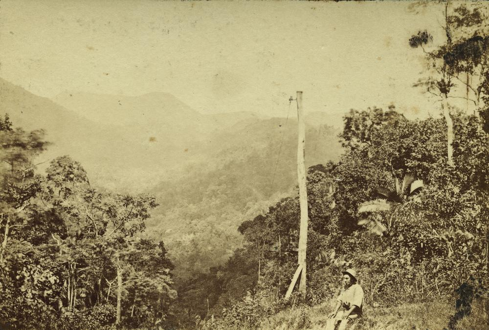 Dalrymple Gap near Cardwell. Long view through the pass.